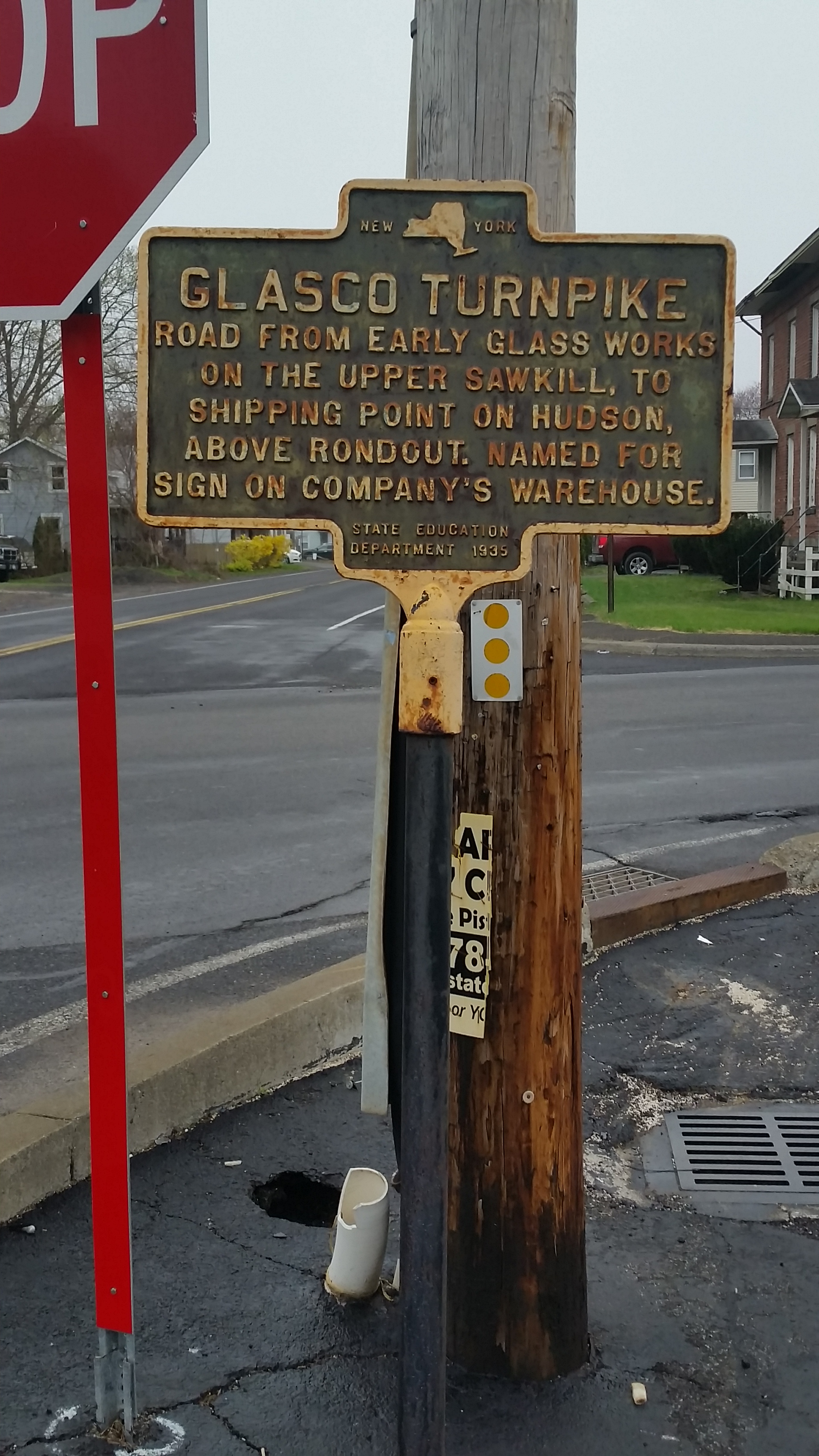 New York State historical marker for Glasco Turnpike in Glasco, NY